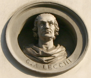 Giovanni Antonio Lecchi. Detail from the series of decorative busts (portraying "distinguished Italians") on the facade Palazzo Brentani, in via Manzoni street at Milan(1829/30). Picture by Giovanni Dall'Orto, April 14 2007.